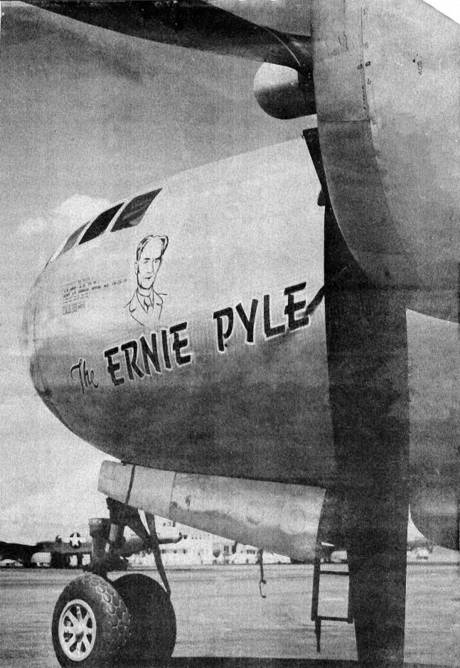 Author is unknown. Photo was taken in 1944 by a US Military employee as published in "Wing Tips", the base newspaper for Mather Field, June 2, 1945, Vol 4, No. 4. This image was created by myself, David Lippincott, from an original copy of the newspaper. This image is released into the public domain.